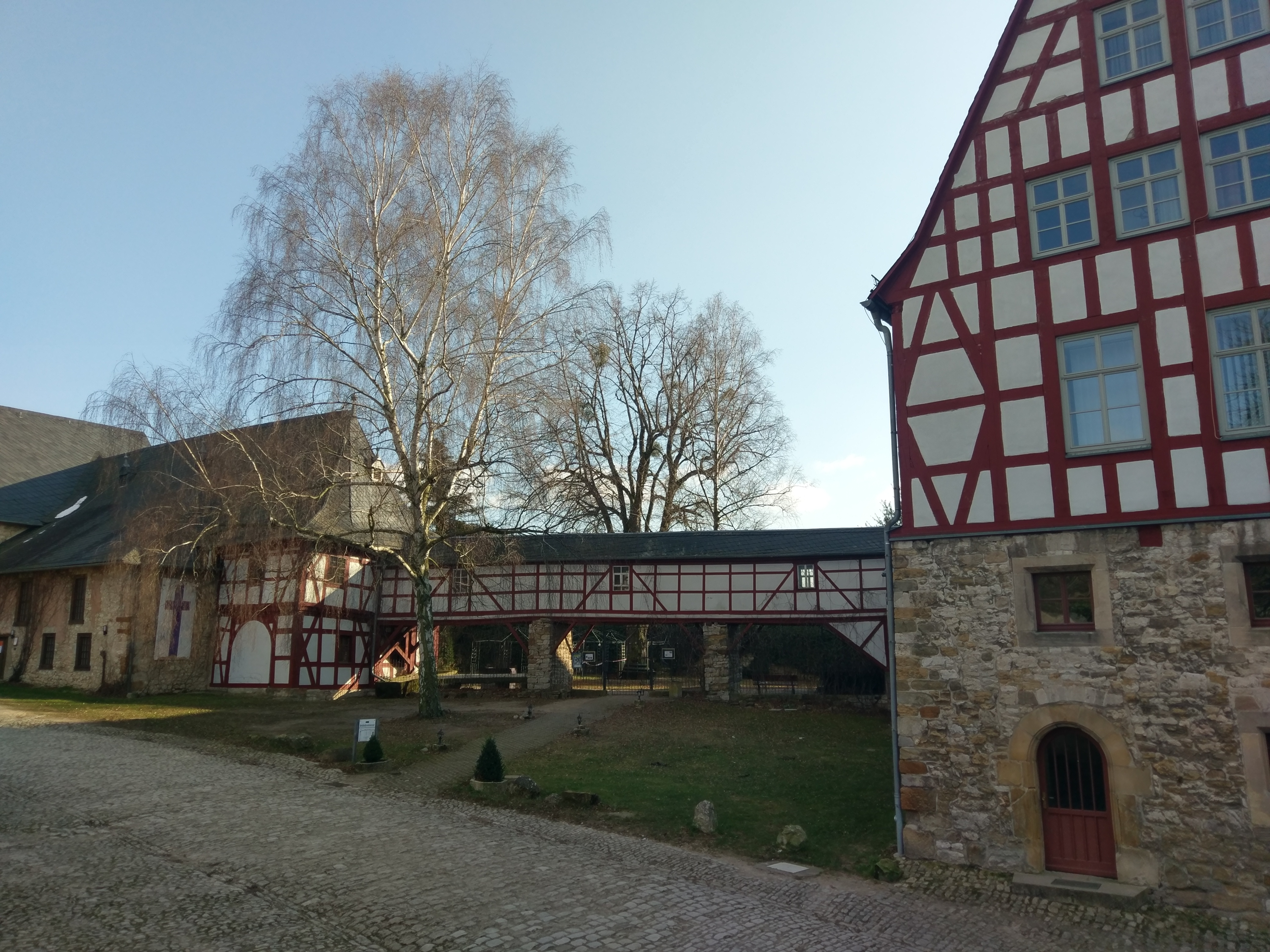 Blick zur Schlosskirche mit Kirchgang zum "Neuen Schloss"